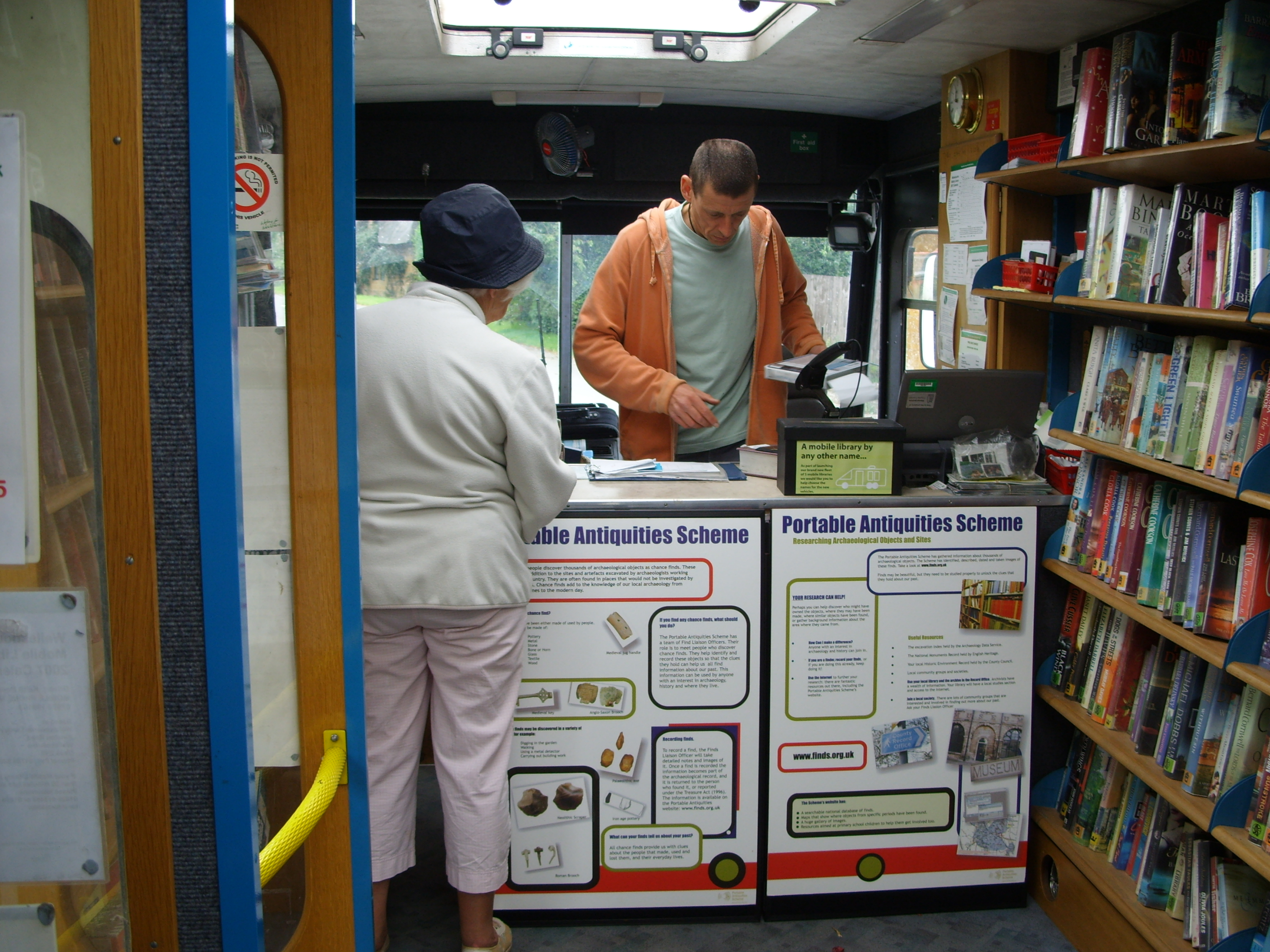 The Portable Antiquities section on the bus This was added from the site called under the name portableantiquities. See source for details.